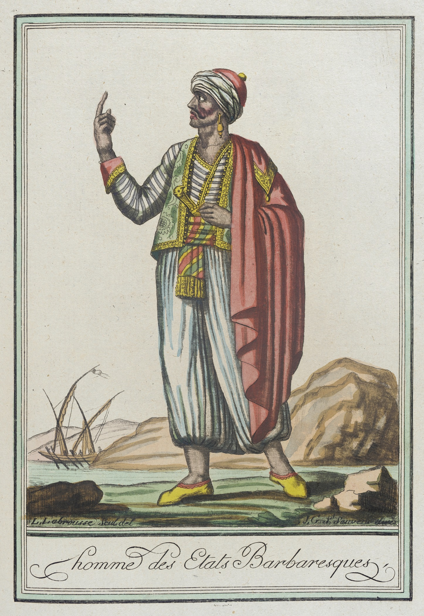 France, circa 1797 Prints; engravings Hand-tinted engraving on paper Sheet: 10 3/8 x 7 7/8 in. (26.35 x 20.01 cm); Composition: 7 7/8 x 5 5/8 in. (20.01 x 14.29 cm) Costume Council Fund (M.83.190.274) Costume and Textiles